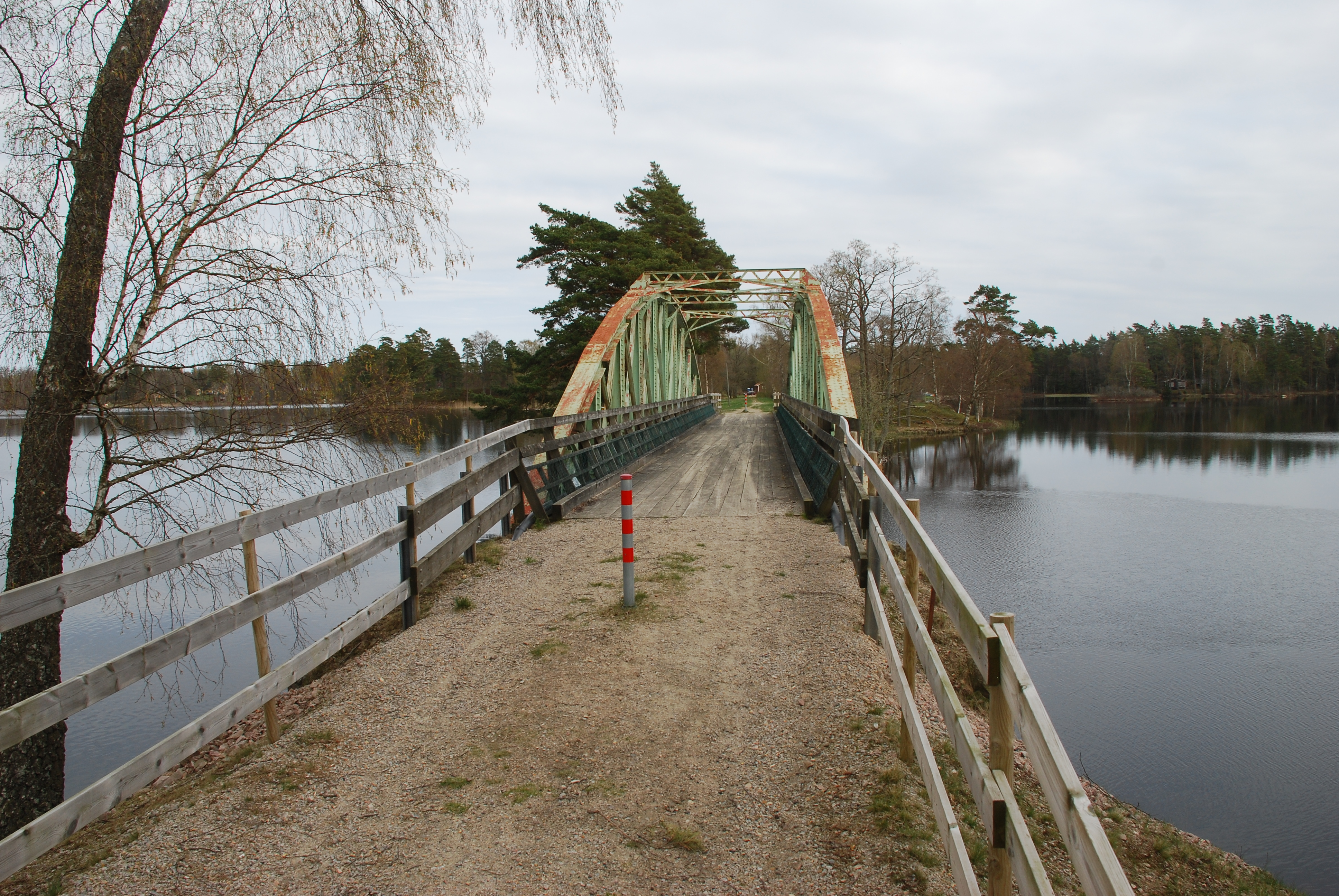 Bridge over Fettjesundet (Lake Bolmen) for a defunct narrow-gauge railroad at Piksborg